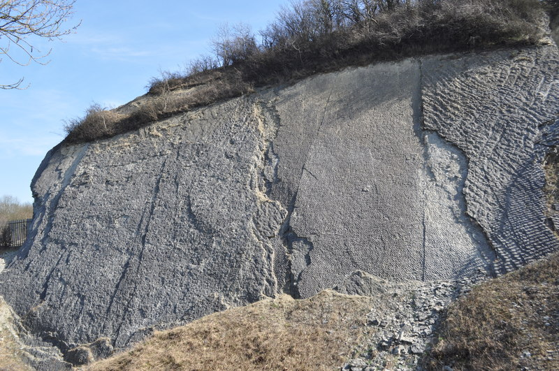 Wren's Nest - Dudley Beach, near to Dudley, Great Britain. When the Ethiopians were told the rift valley would create a new sea in their country there was excitement about the tourism potential. Sadly for them it will take several million years to form. This is the opposite, Dudley had a beach, here it is 420 millions years later.